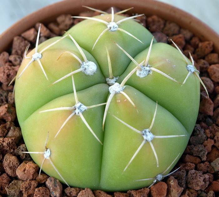 Gymnocalycium horstii photo from my website